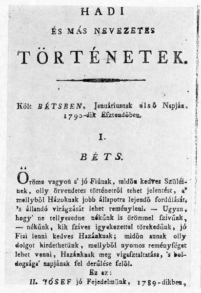 The cover page of a 18th century, Hungarian newspaper, called Hadi és Más Nevezetes Történetek (meaning War and Other Notable Stories). This is the cover page of the issue from 1st of January, 1790. The newspaper was edited by Demeter Görög and Sámuel Kerekes.